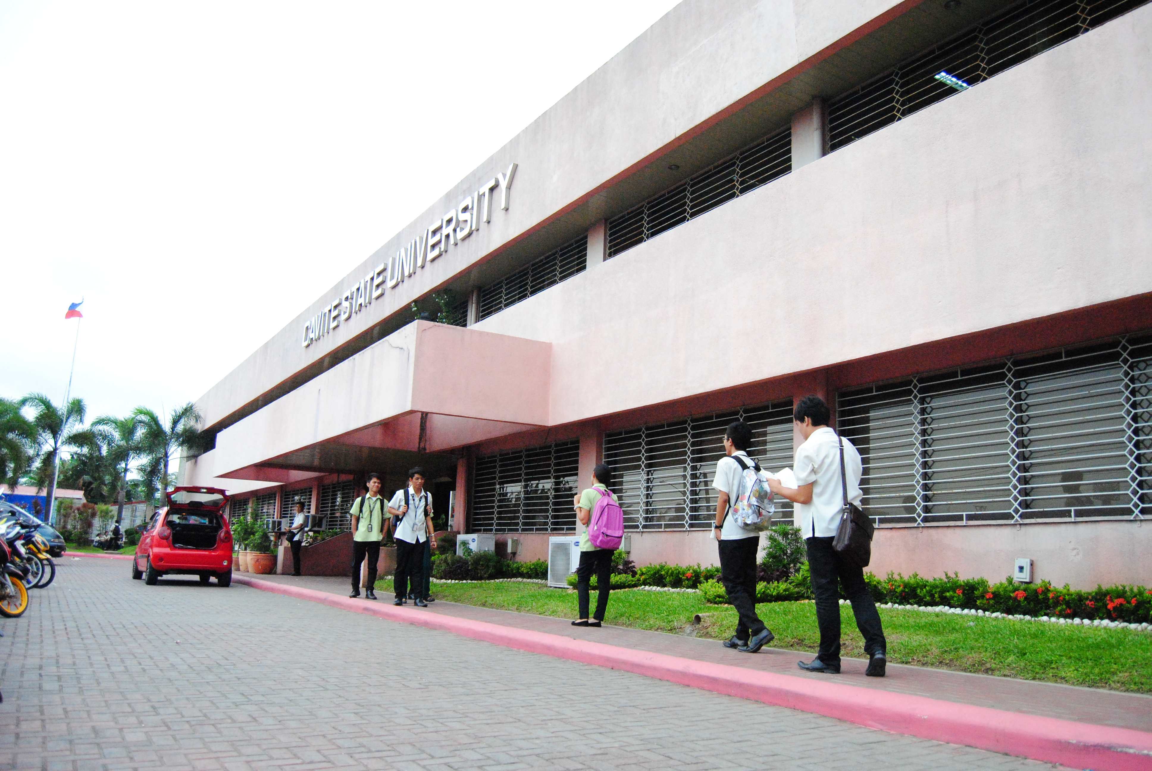 The image depicts the facade of Cavite State University-Cavite City Campus in June 2015.